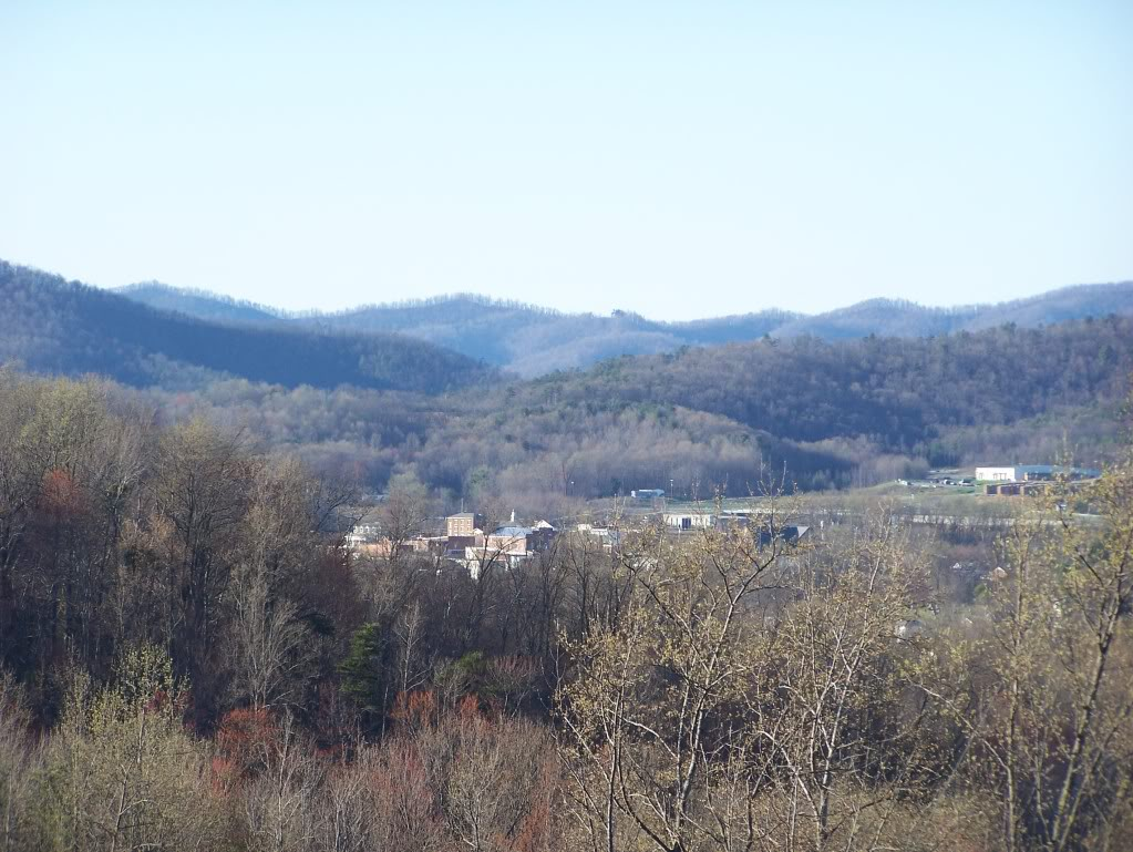 The Town of Stuart cradled by the Blue Ridge Mountains